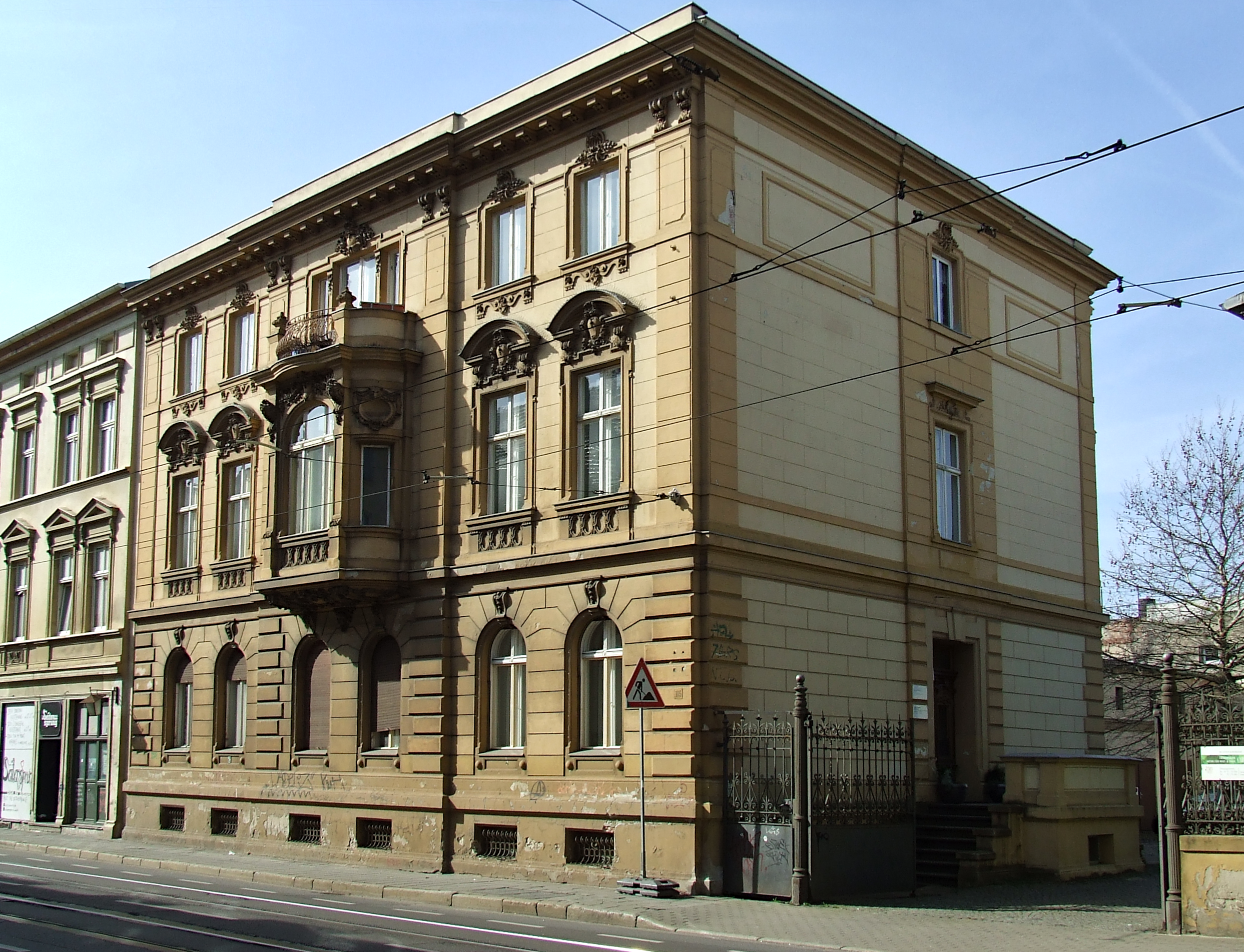 Listed Casper Gewerbehof, Straße der Jugend 105 in Cottbus-Mitte.